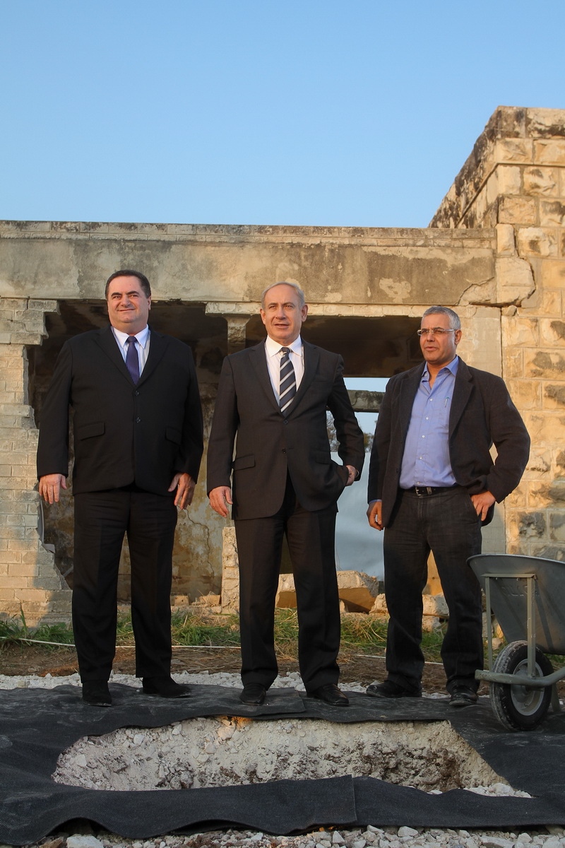 Foundation laying ceremony for Beit Shean Railway Station in Israel. On the left is Israeli Transport Minister Israel Katz and in the center—Prime Minister Benjamin Netanyahu